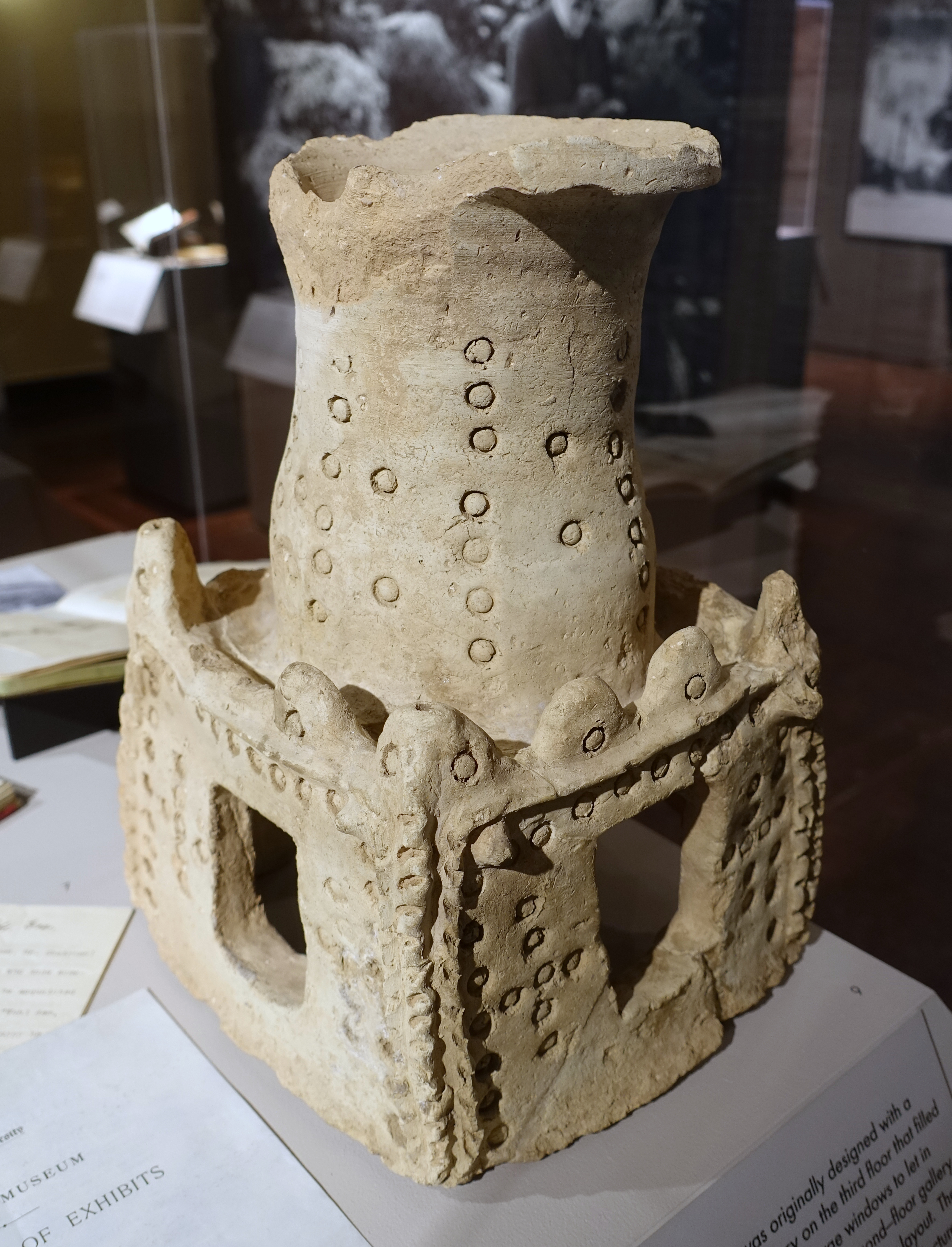 Exhibit in the Harvard Semitic Museum, Harvard University - Cambridge, Massachusetts, USA. This work is old enough so that it is in the public domain.